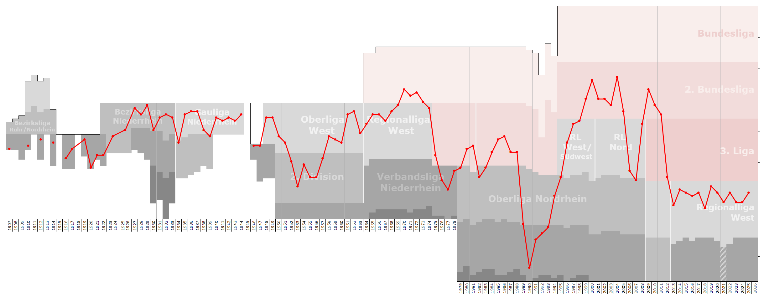 Chart of end-season table positions of Rot-Weiß Oberhausen in the football league system of Germany. Data source: RSSSF, wikipedia, f-archiv.de, fussball.de